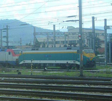 Korail EL 8101 at Jecheon Marshalling Yard